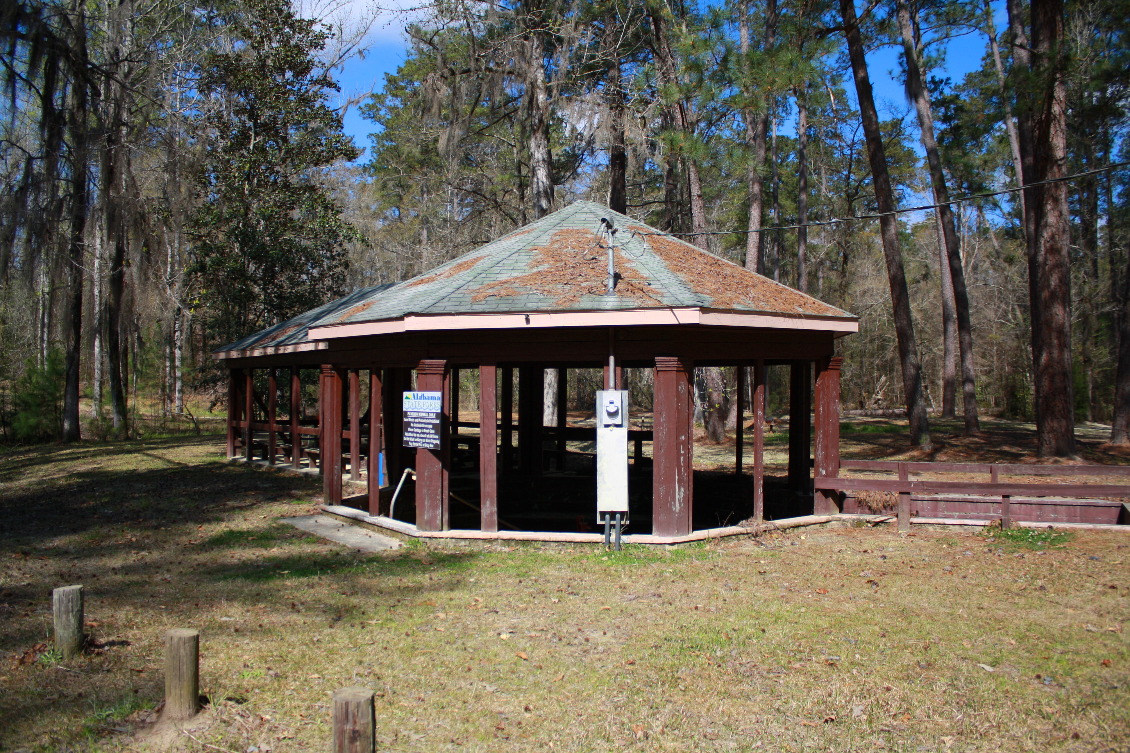 Pavilion over the big spring at Bladon Springs State Park in Bladon Springs, Choctaw County, Alabama. The octagonal portion was built during the 1840s and is the only structure in the park remaining from the antebellum hotel period.